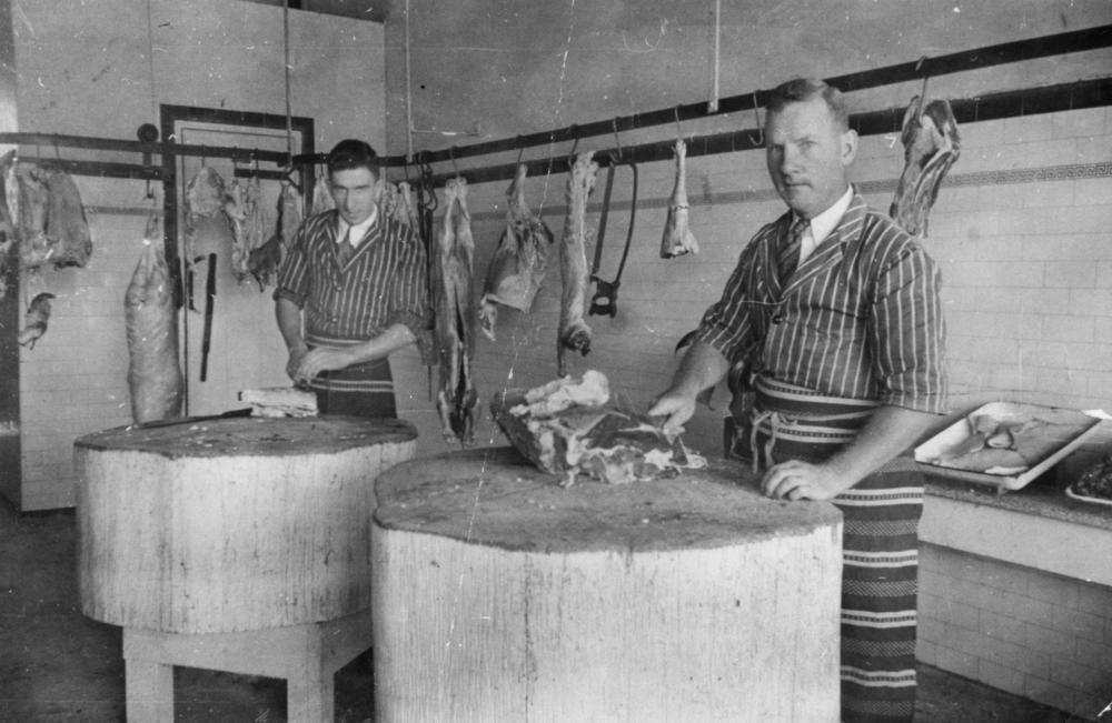 Claude Burton in his butcher shop in Wondai, Queensland, 1935 Left is Mr Burton's assistant Bill Brown. Claude Burton's shop was in Haly Street, Wondai. (Description supplied with photograph.) Interior photograph of the Wondai butcher shop with meat on the chopping block.